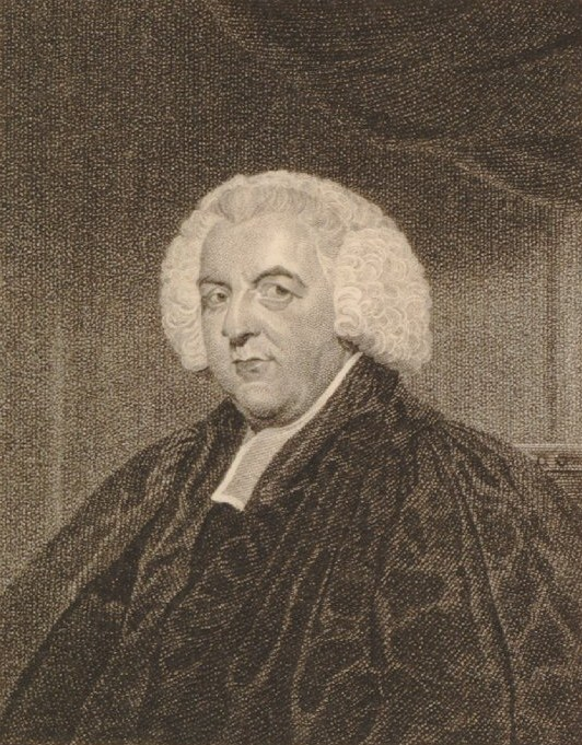 Portrait of Thomas Wills (1740–1802), English evangelical.